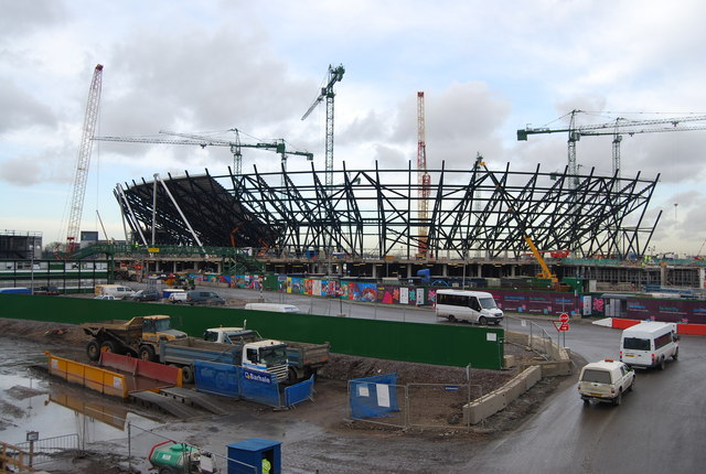 Construction of Olympic Park, London — (Jan. 2009). Construction of Olympic Stadium for 2012 — in January 2009.